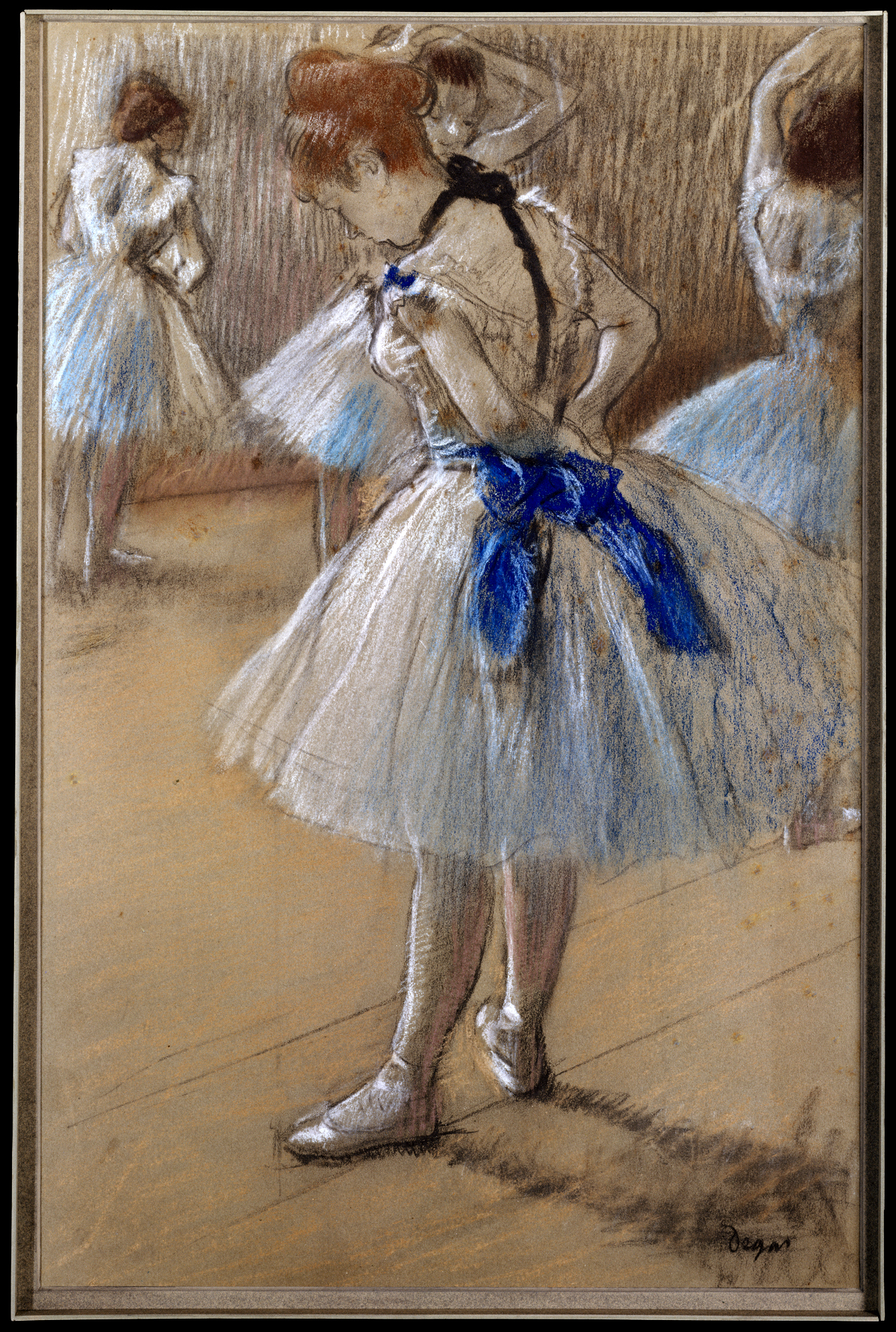 A study of a dancer, by Edgar Degas